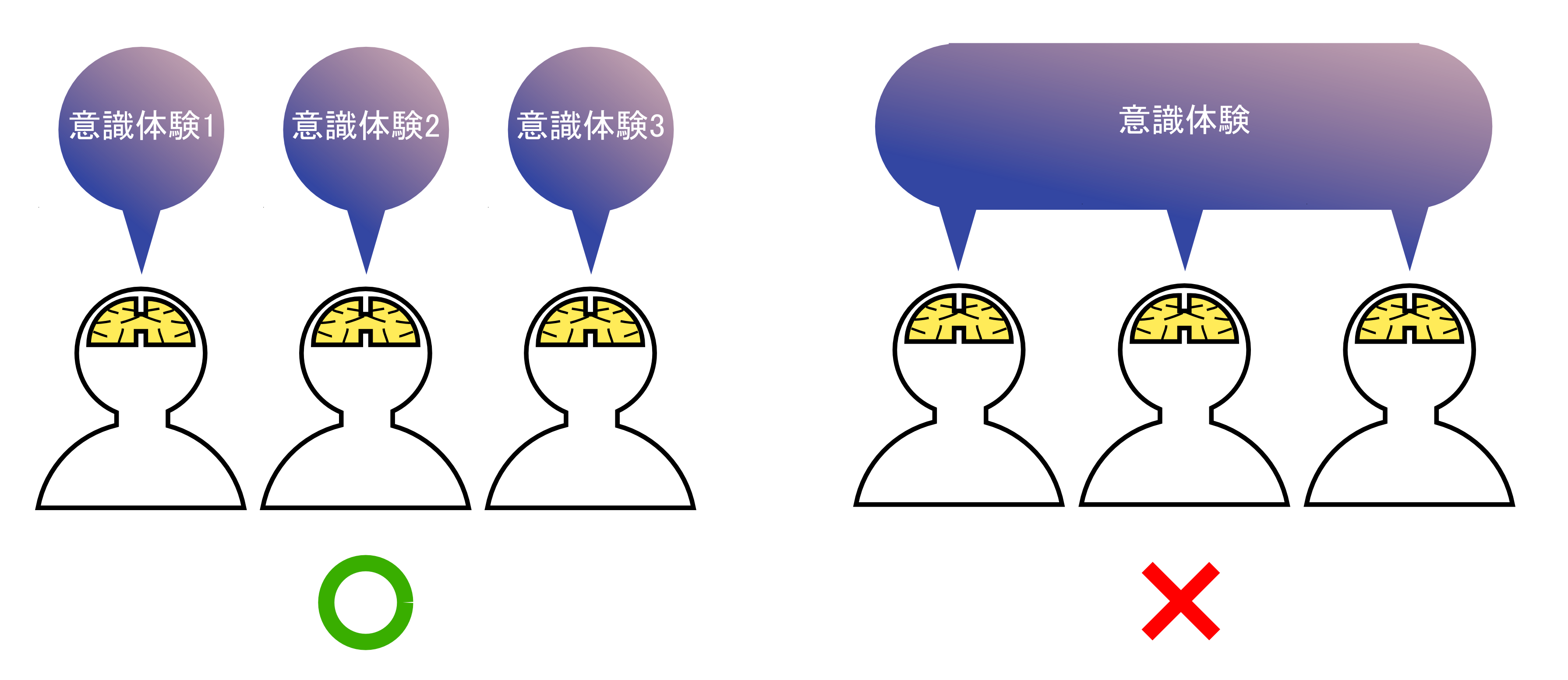 Diagram about boundary problem, is problem discussed in philosophy of mind related to unity of consciousness. See Gregg Rosenberg "A Place for Consciousness".